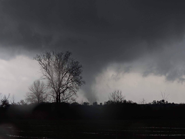 An EF3 tornado approaches I-55 south of Como, Mississippi on 12/23/15.